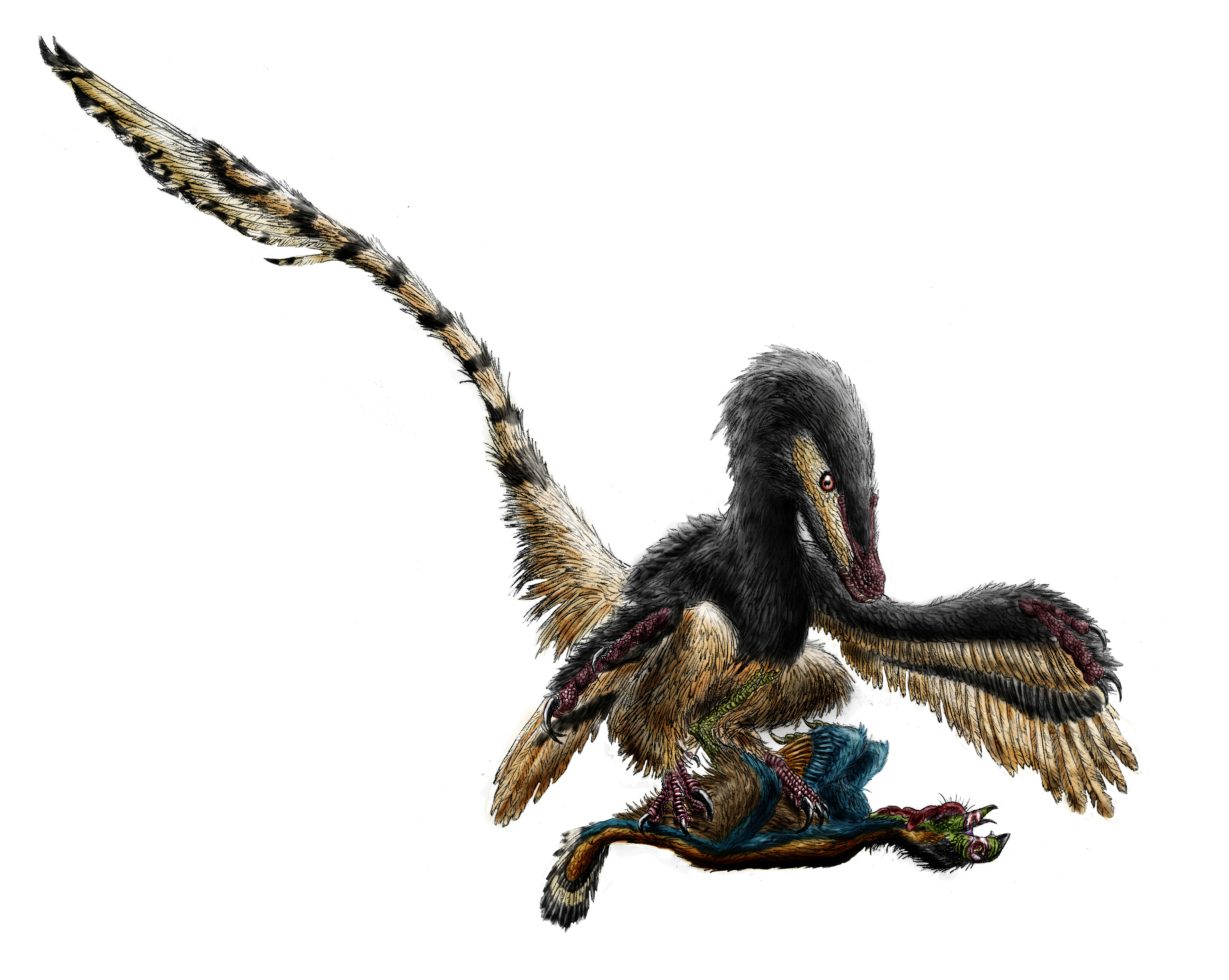 The dromaeosaurid Velociraptor mongoliensis restraining a juvenile oviraptorosaur using the "mantling" technique, which has been proposed for dromaeosaurids and is done by modern birds of prey.